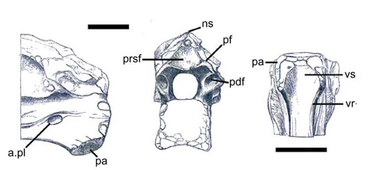 Cervical vertebra NHMUK PV R181 of the ornithomimosaur Thecocoelurus from the Wealden Wessex Formation of the Isle of Wight in right lateral, anterior and ventral views (modified from Seeley, 1888 by Allain et al., 2014). Anatomical nomenclature: a.pl: anterior pleurocoel; ns: neural spine; pa: parapophysis; pdf: pedicular fossa; pf: pneumatic foramen; prsf: prespinal fossa; vr: ventrolateral ridges; vs: ventral sulcus. Scale bars: 2cm.